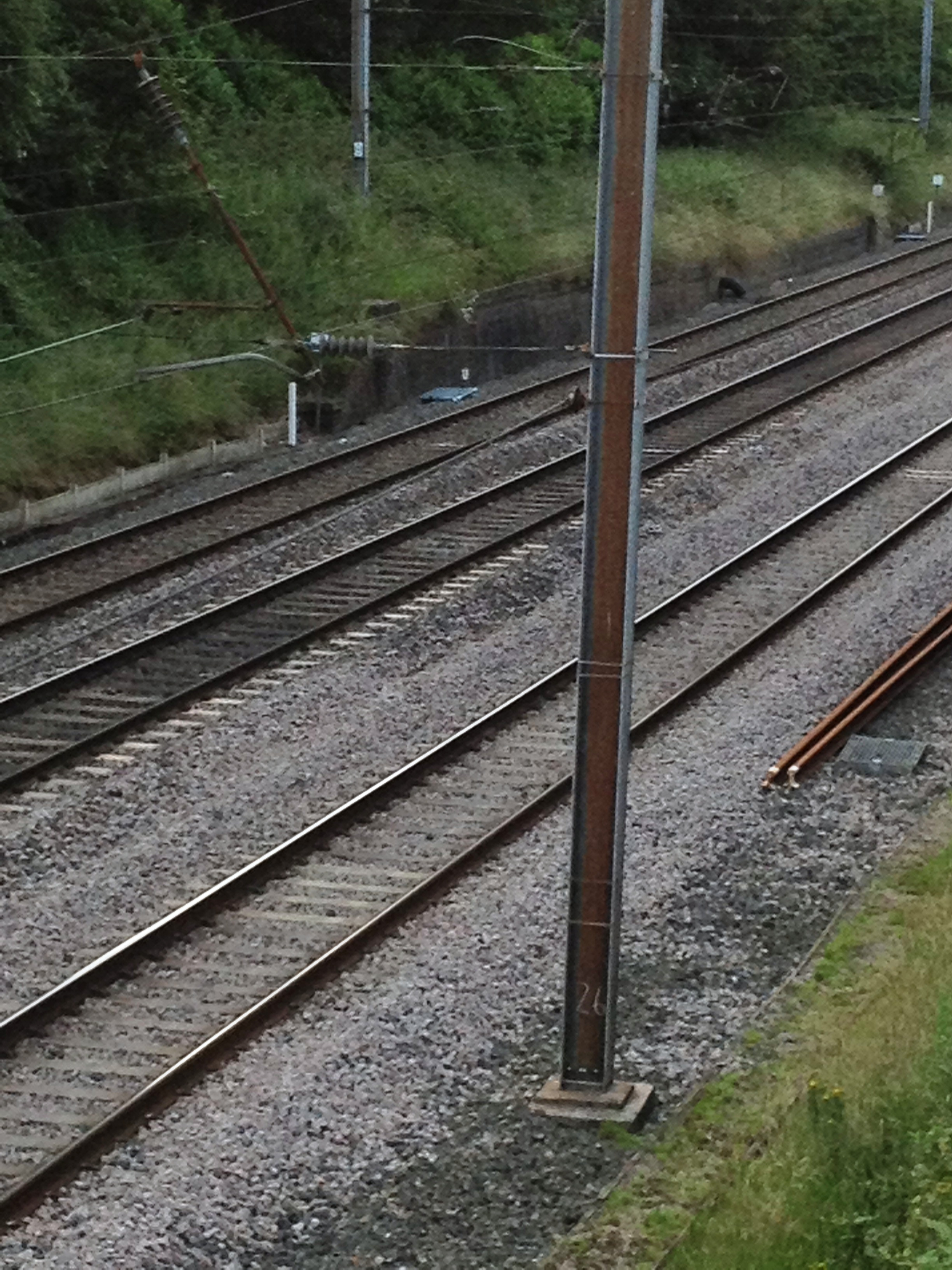 Steel gantry on WCML north of Preston corroding